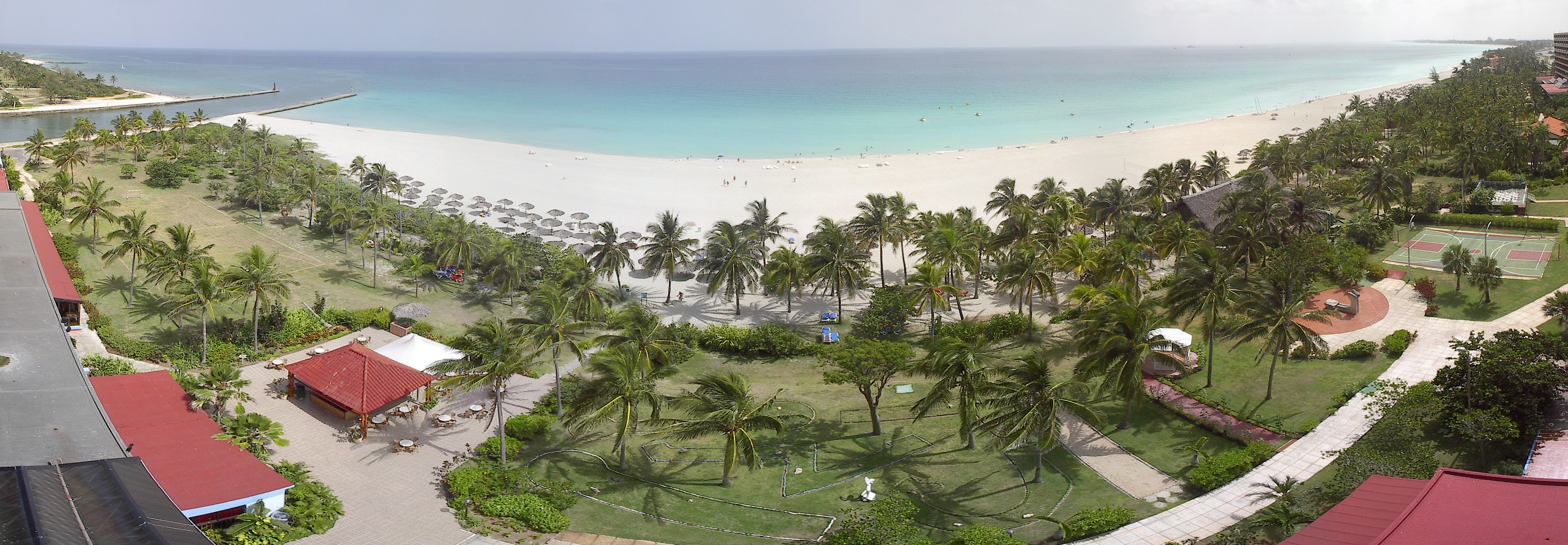 Varadero - Cuba - Hotel Club Puntarena